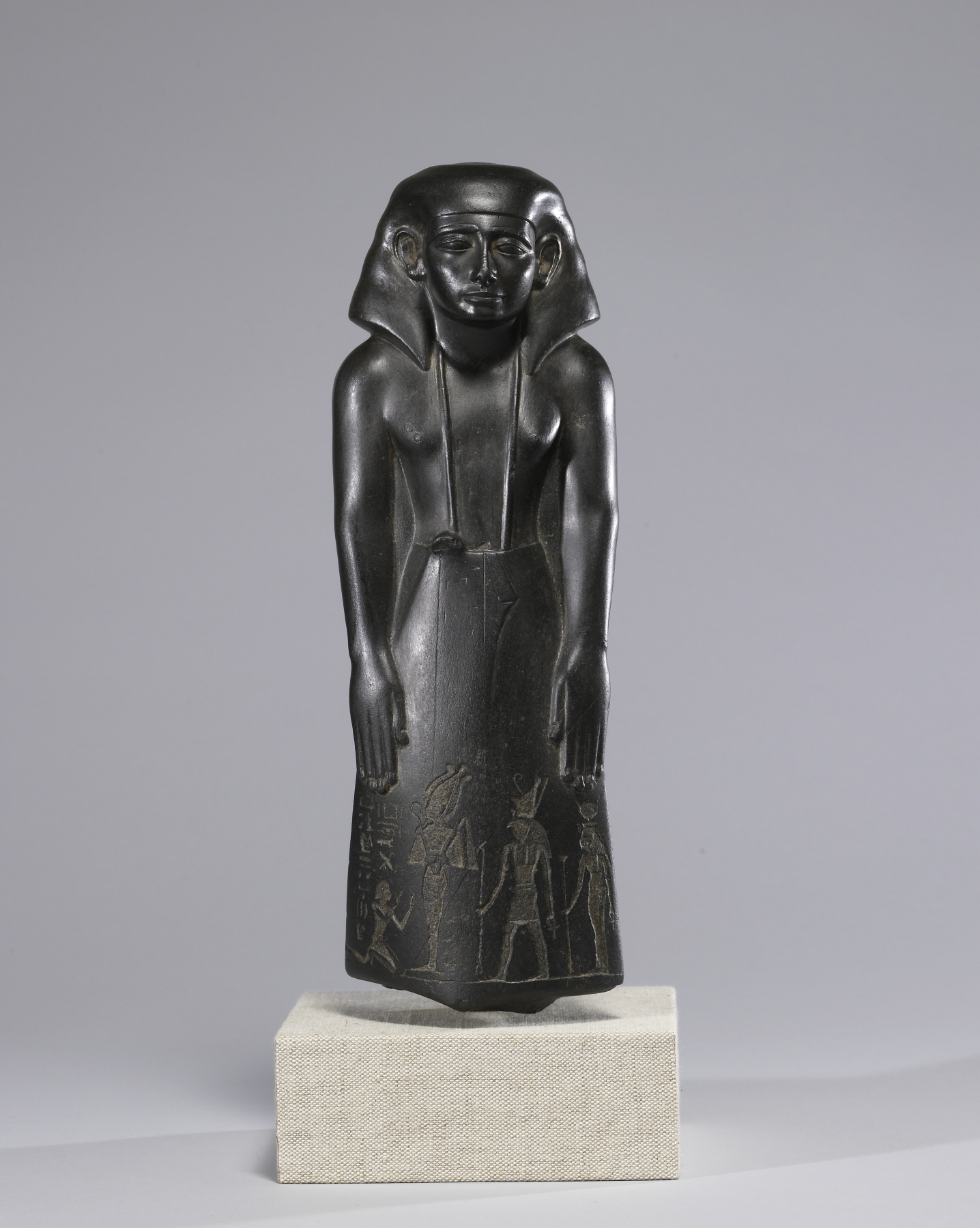 A remarkable example of the re-use of a work of art, reflecting the course of Egypt's long history, this statue was originally carved to commemorate a powerful government official. A thousand years later the inscription naming this unknown man was erased, and a carved scene was added depicting its new owner, Pa-di-iset, son of Apy, worshipping the gods Osiris, Horus, and Isis. From a text on the rear of the statue we learn that Pa-di-iset was a diplomatic messenger to the neighboring lands of Canaan and Peleset (Palestine).